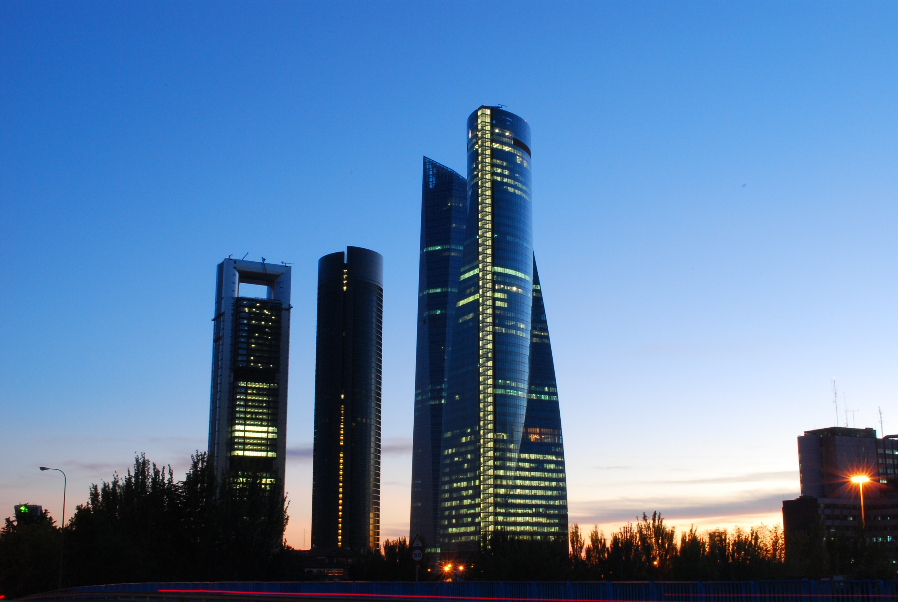 View of Cuatro Torres Business Area in Madrid (Spain) at night.